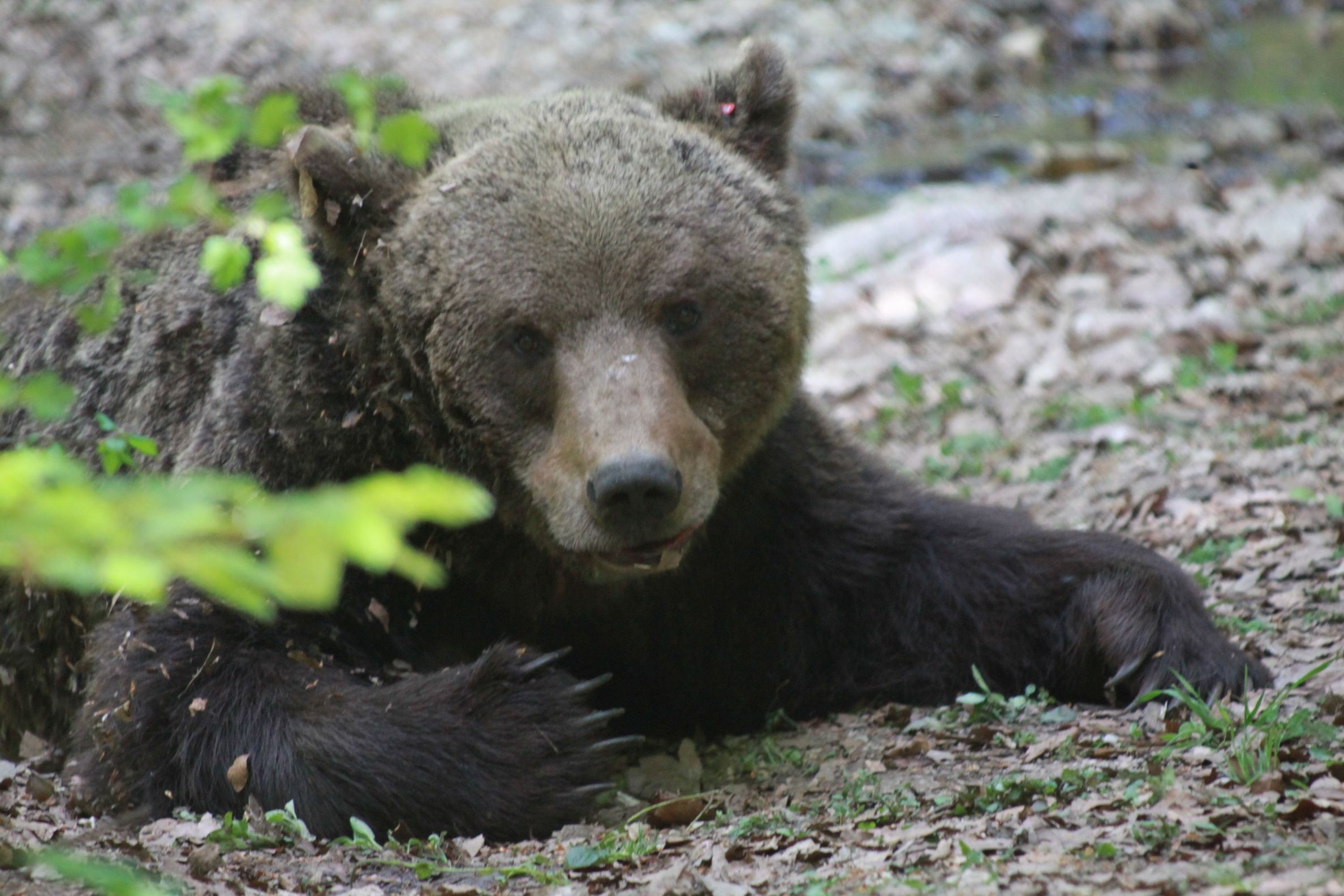 Medo Ljutoc